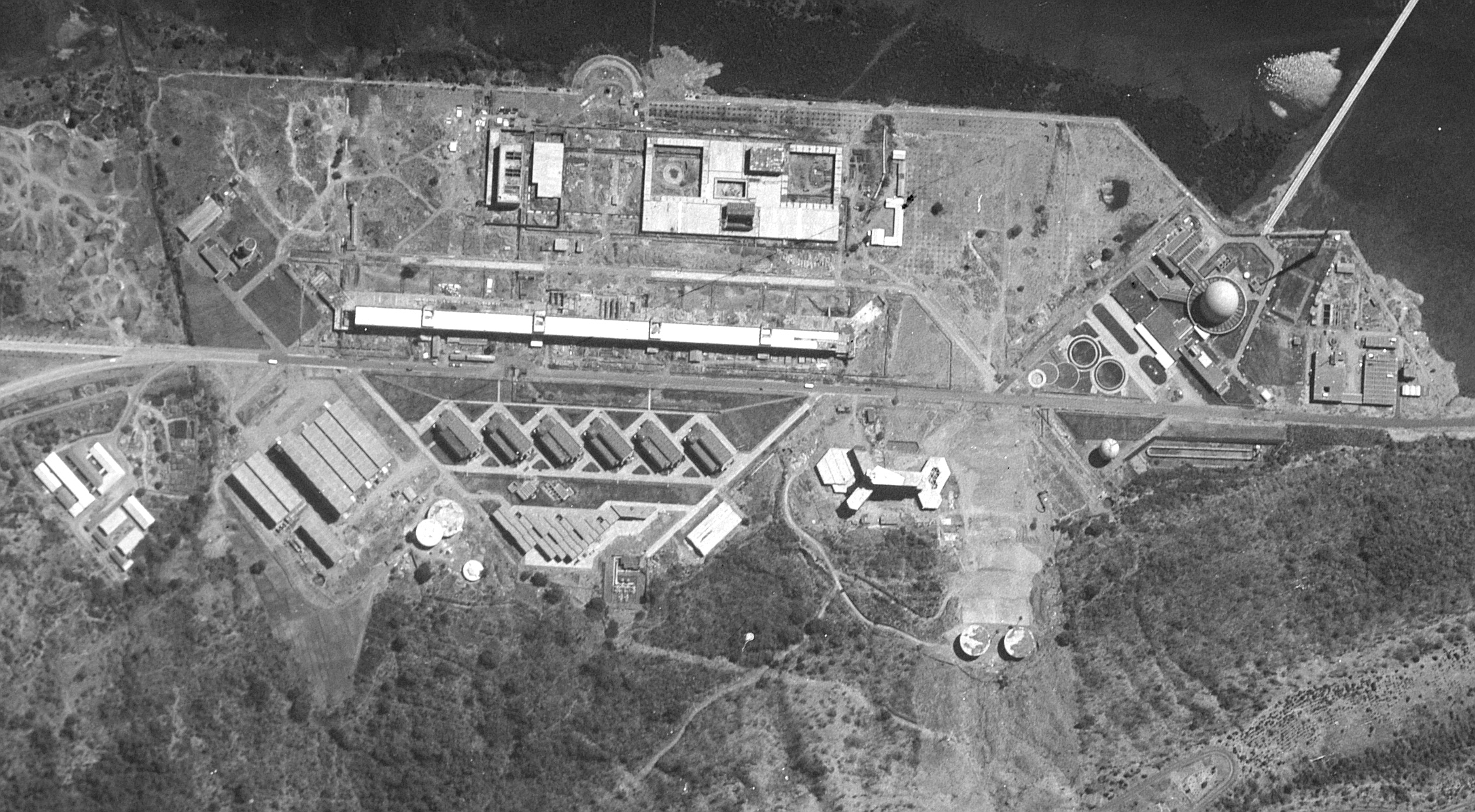 Trombay, the site of India's first atomic reactor (Aspara), the CIRUS reactor provided by Canada, and a plutonium reprocessing facility, as photographed by a KH-7/GAMBIT satellite during February 1966. Provided under lax safeguards, the CIRUS reactor produced the spent fuel that India converted into plutonium for the May 1974 test (the heavy water needed to run the reactor was provided by the United States, also under weak safeguards). Bhabha Atomic Research Centre (BARC).